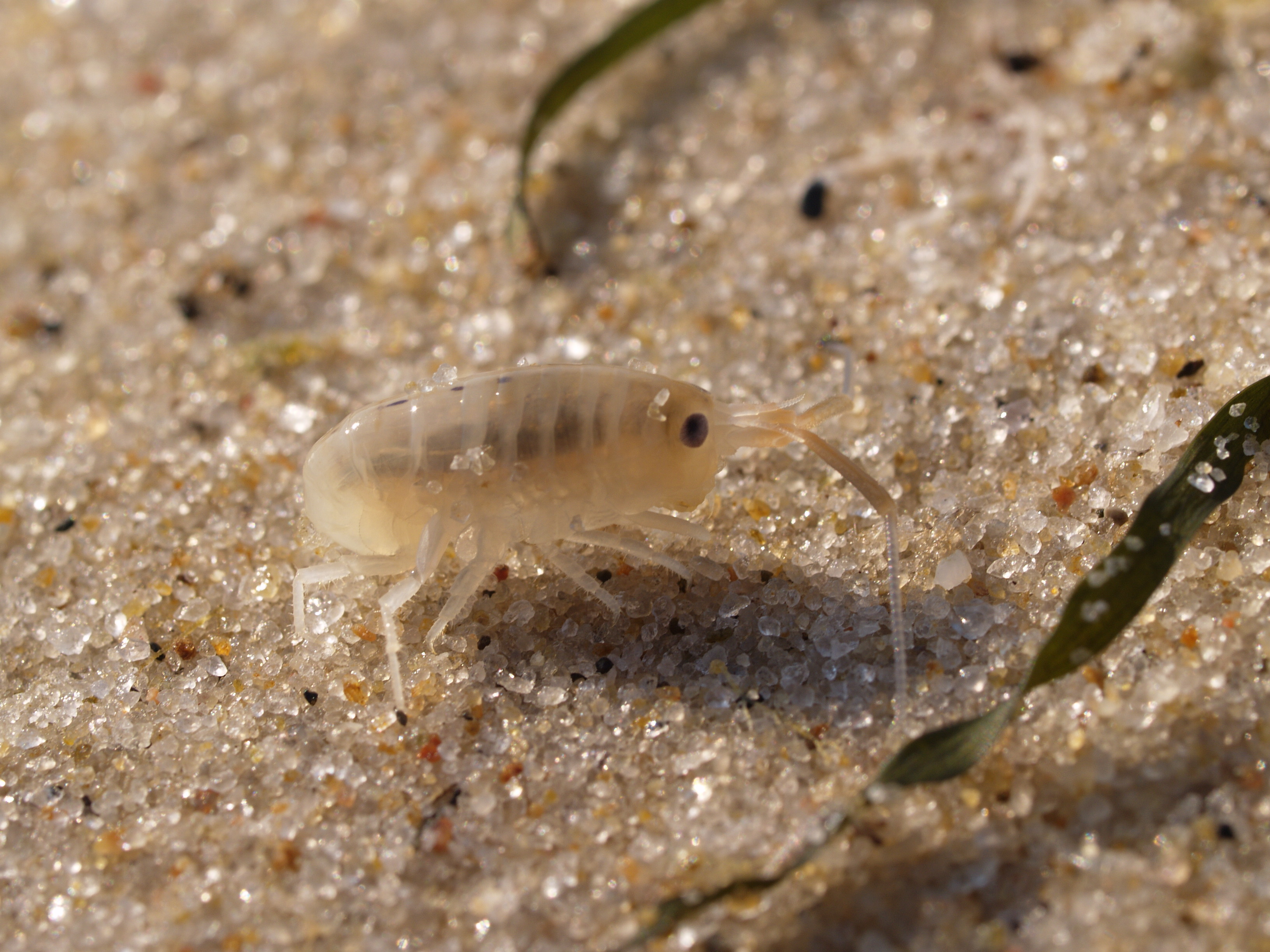 Talitrus saltator at the beach of Baltic Sea at Bornholm island